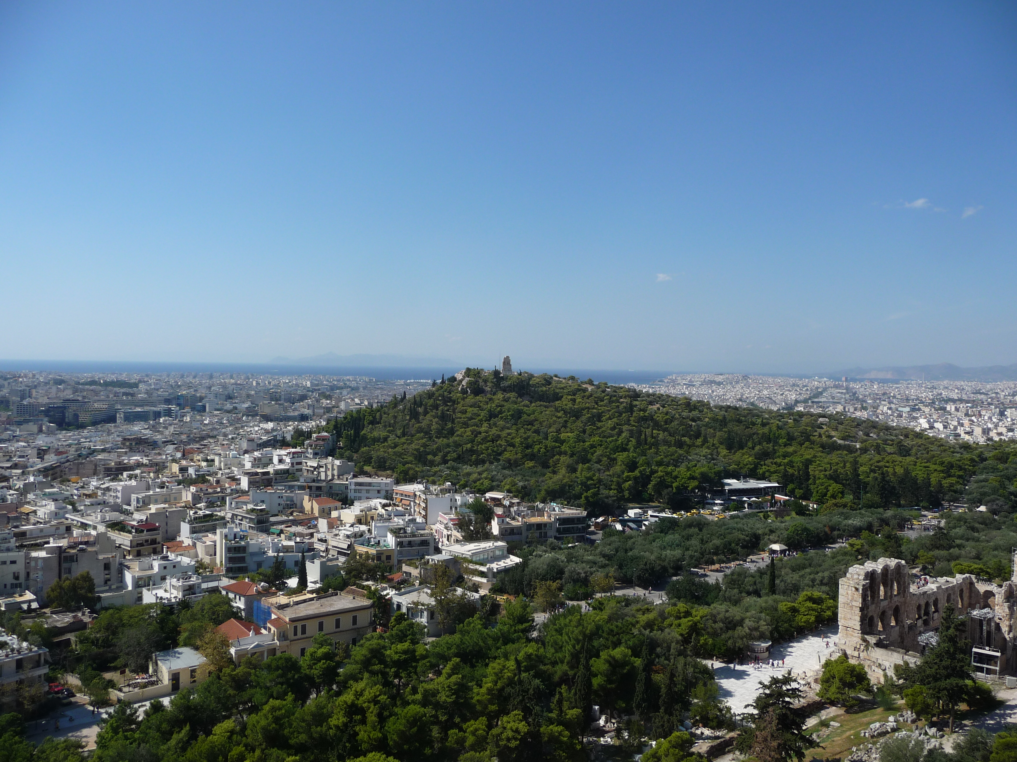 Athen mit Philopapposdenkmal